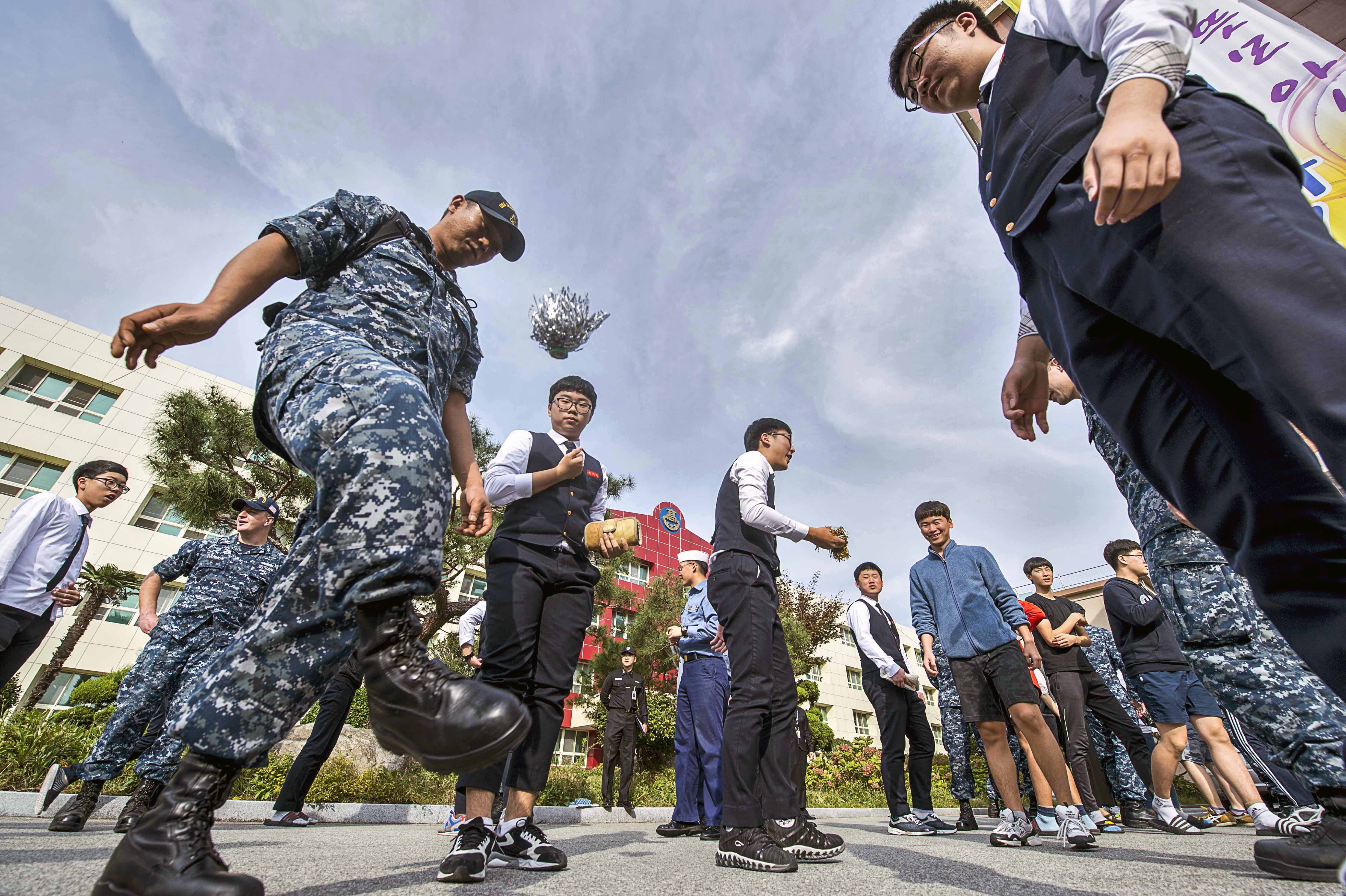 BUSAN, Republic of Korea (Oct. 19, 2016) Sailors assigned to the Ticonderoga-class guided-missile cruiser USS Chancellorsville (CG 62) play Jegichagi with Korean students at Jinhae high school during a community relations (COMREL) event. Chancellorsville is on patrol with Carrier Strike Group Five (CSG 5) supporting security and stability in the Indo-Asia-Pacific region. (U.S. Navy photo by Petty Officer 2nd Class Andrew Schneider/Released)161019-N-XQ474-085 Join the conversation: navylive.dodlive.mil